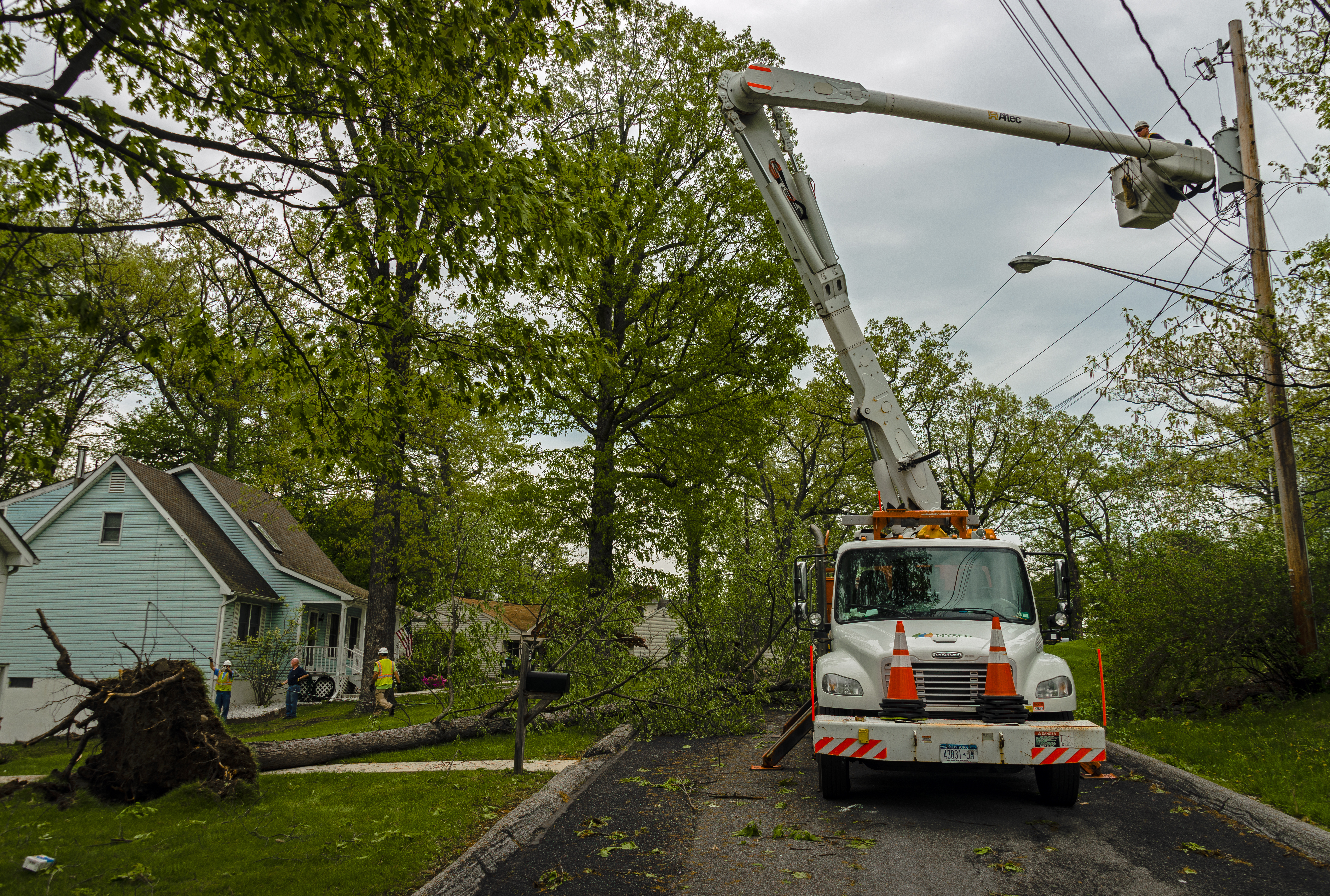 New York State Electric and Gas workers begin the process of clearing a downed tree that has blocked a road and fallen on power lines after the May 2018 Northeast derecho in Walden, NY, USA